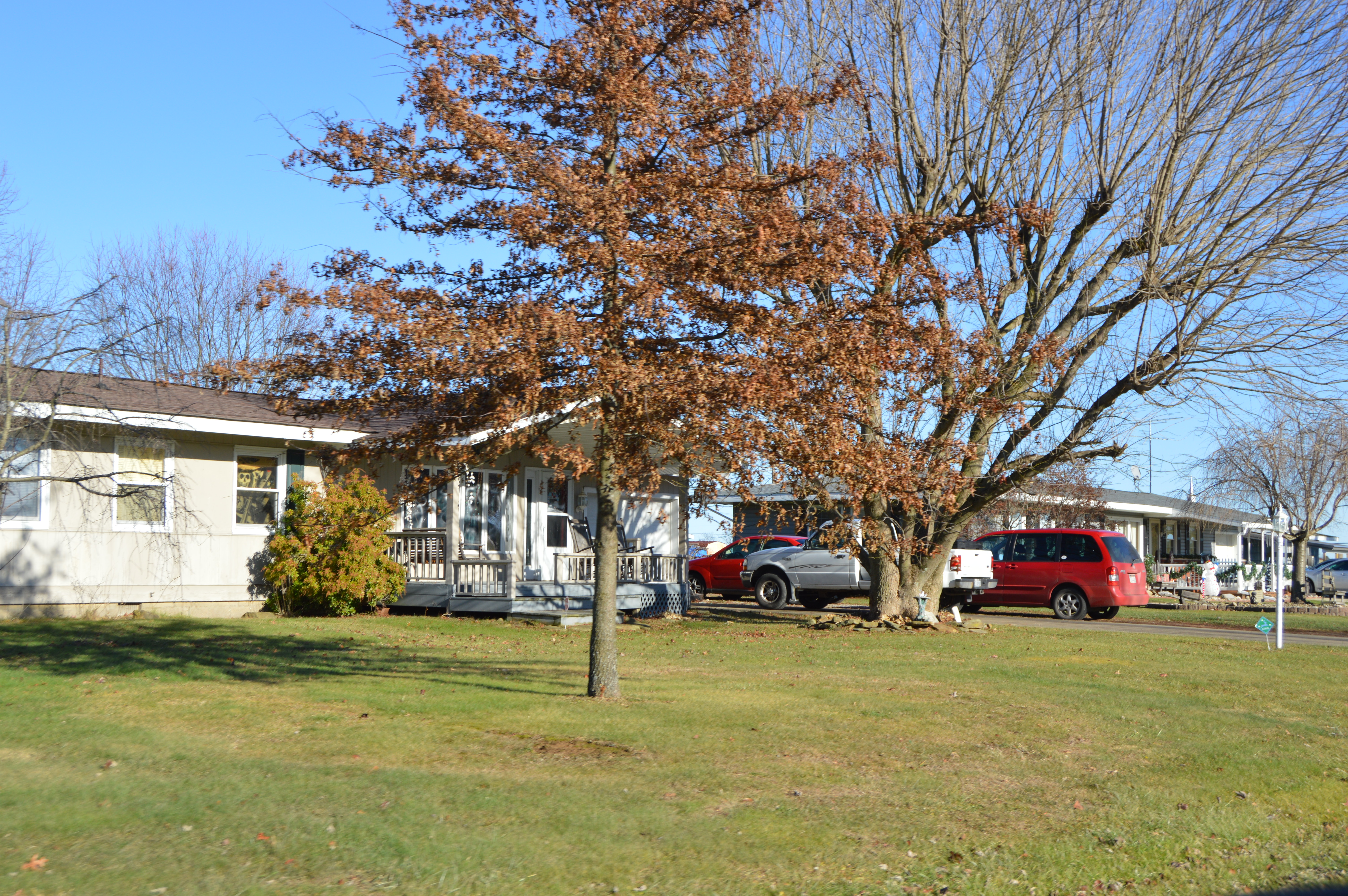 Houses on East Drive in the Monroe County section of Wilson, Ohio, United States.